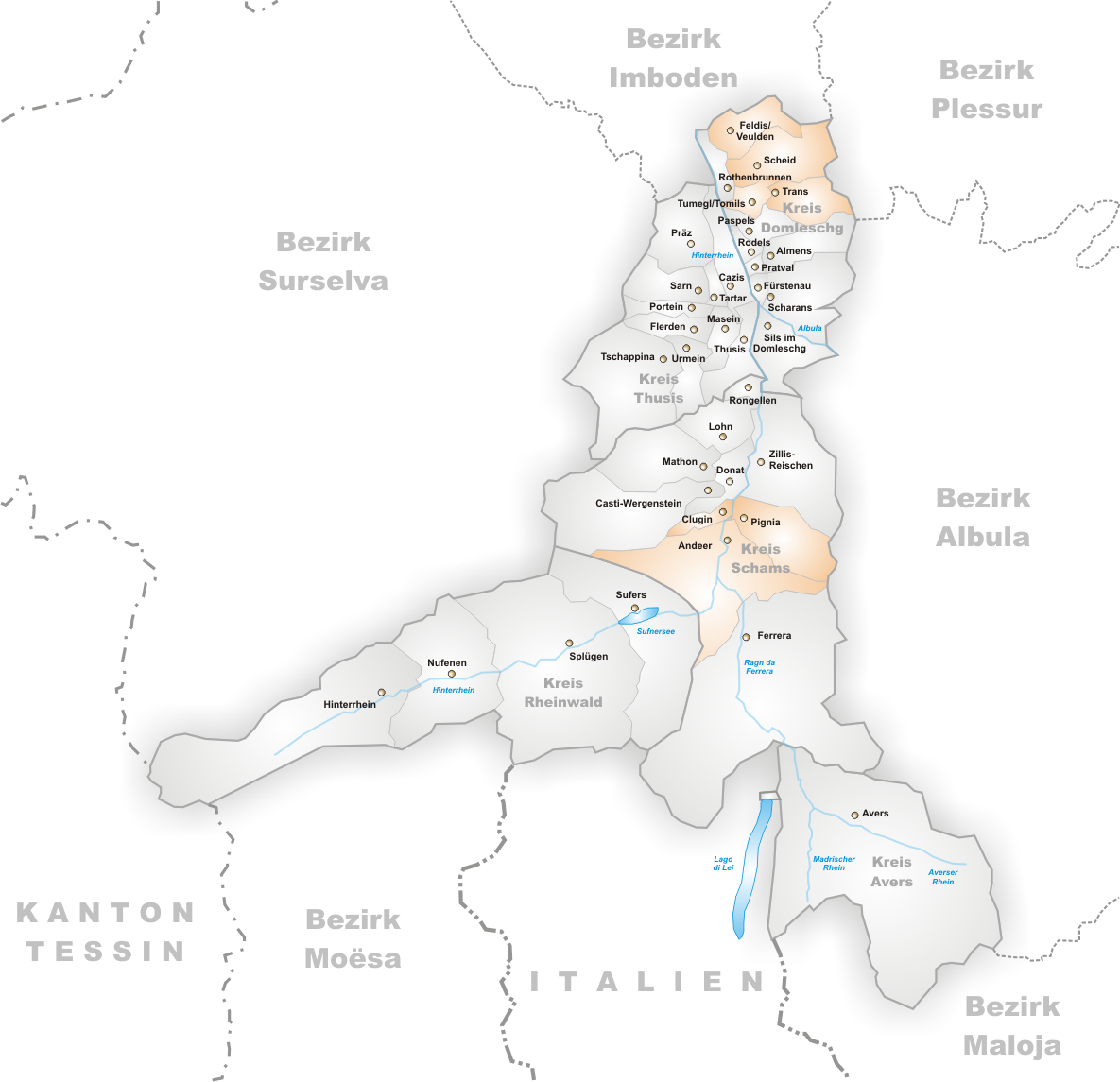 Municipalities in the district of Hinterrhein until 2008